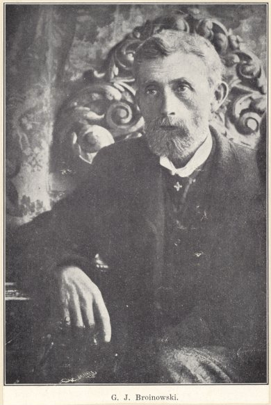 Photographic portrait of Gracius Broinowski, a nineteenth century Australian naturalist and zoological illustrator. Identification by curator using caption affixed to the mount.